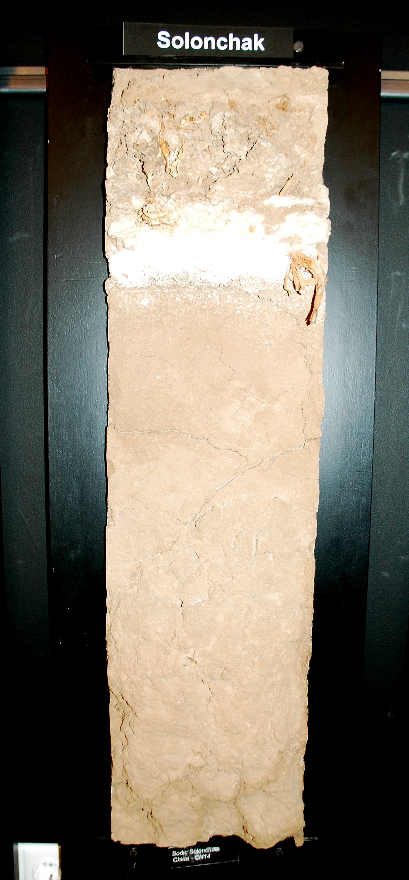 Profile of a soil with a saline soil with a salt crust, a Petrosalic Solonchak from the Turpan desert in China.